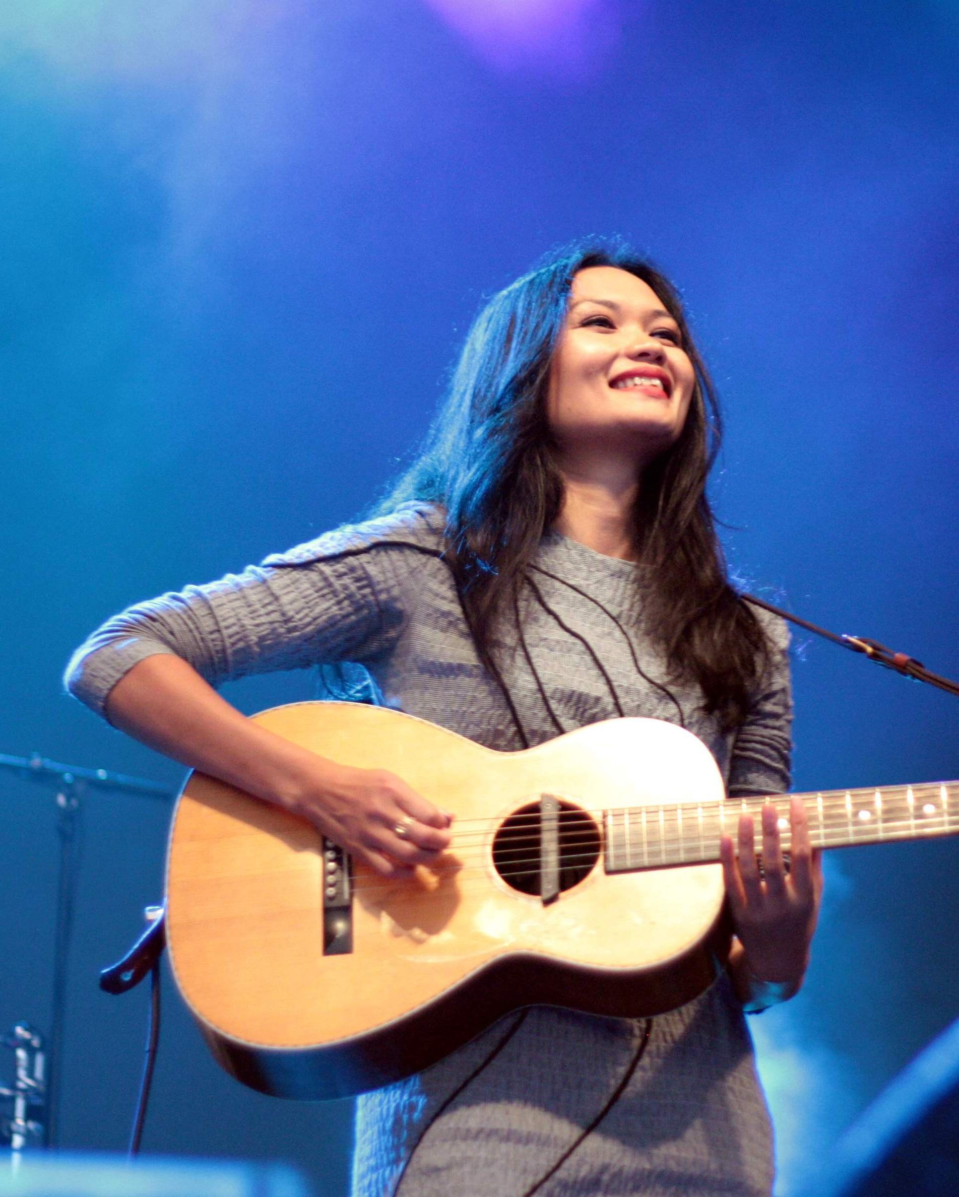 Bic Runga on the 2010 Winery Tour, in New Zealand. Photo by Nick Chappell.